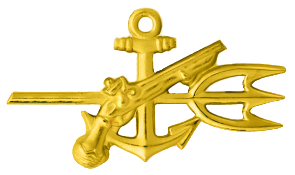 New Image